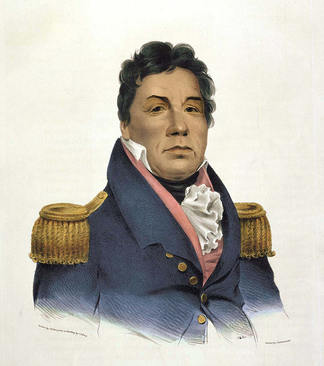 PUSH-MA-TA-HA. Choctaw chief, ca. 1837-1844, Publisher: McKenney and Hall, Copy after Charles Bird King